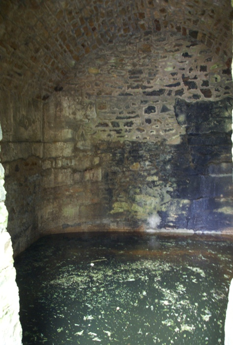 Burghead Well, Moray, Scotland